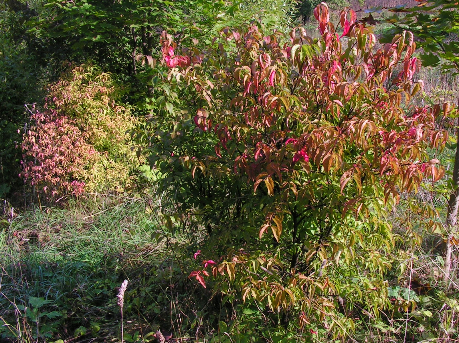 The shrubs of Euonymus verrucosus. Moscow region, Russia.